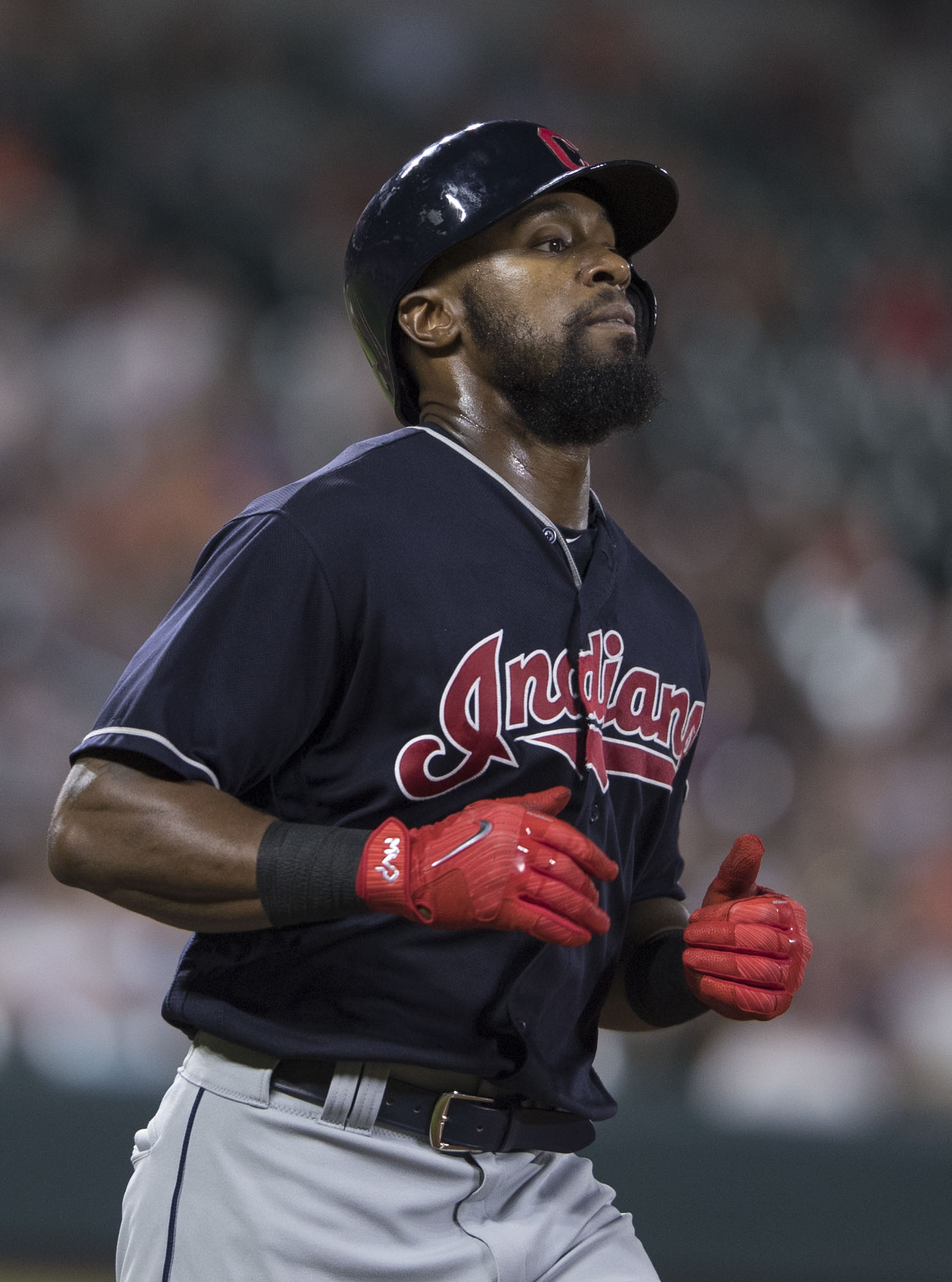 Indians at Orioles 6/20/17